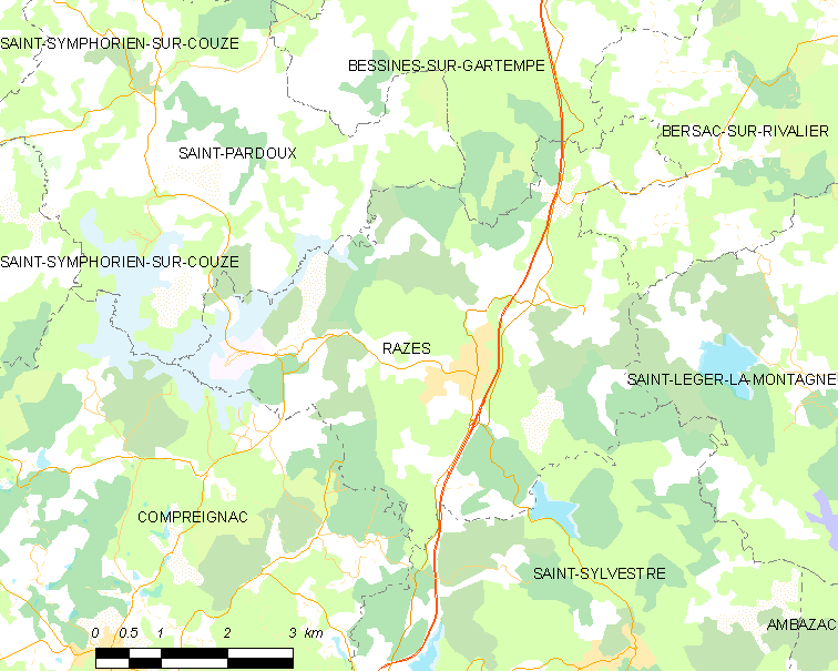 Map of French municipality Razès